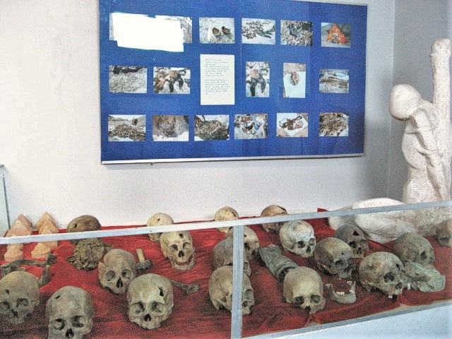 Totenschädel aus Massengräbern im "Memorial Museum of Victims of political Persecutions" in Ulan Bator, Mongolei